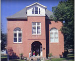 Larimore Museum